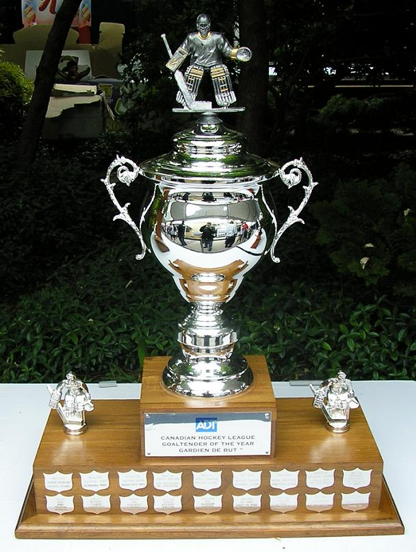 Photo I took of the CHL Goaltender of the Year award at the 2007 Memorial Cup in Vancouver.